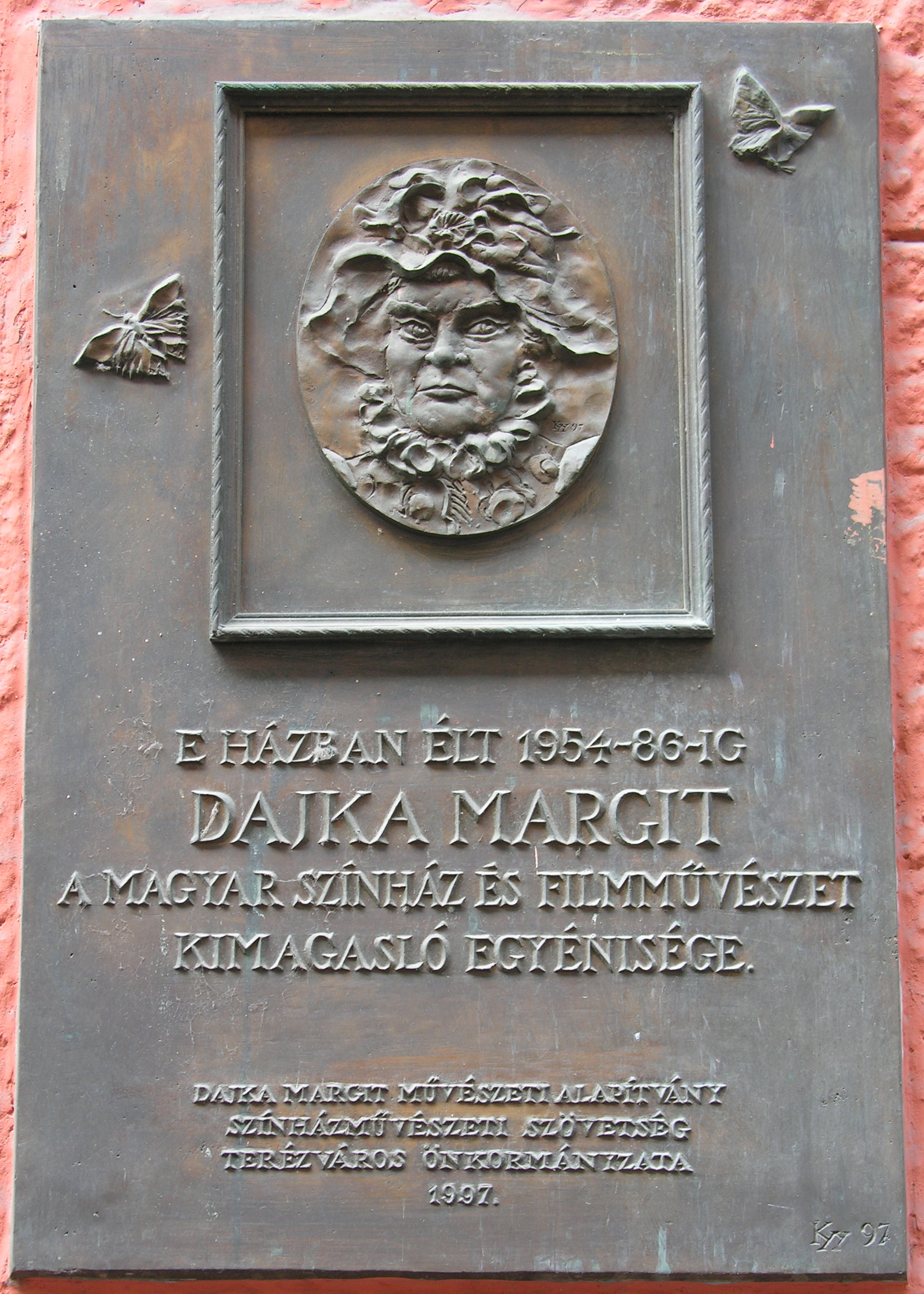 Commemorative plaque of Margit Dajka in Budapest District VI, Lovag Street No 10. Sculptor: György Kiss